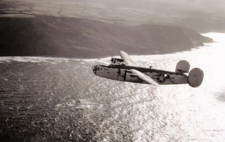 A U.S. Navy Consolidated PB4Y-1 Liberator of bombing squadron VB-103 off Cornwall in the summer of 1943. VB-103 began operating from St. Eval, Cornwall (UK), in August 1943.